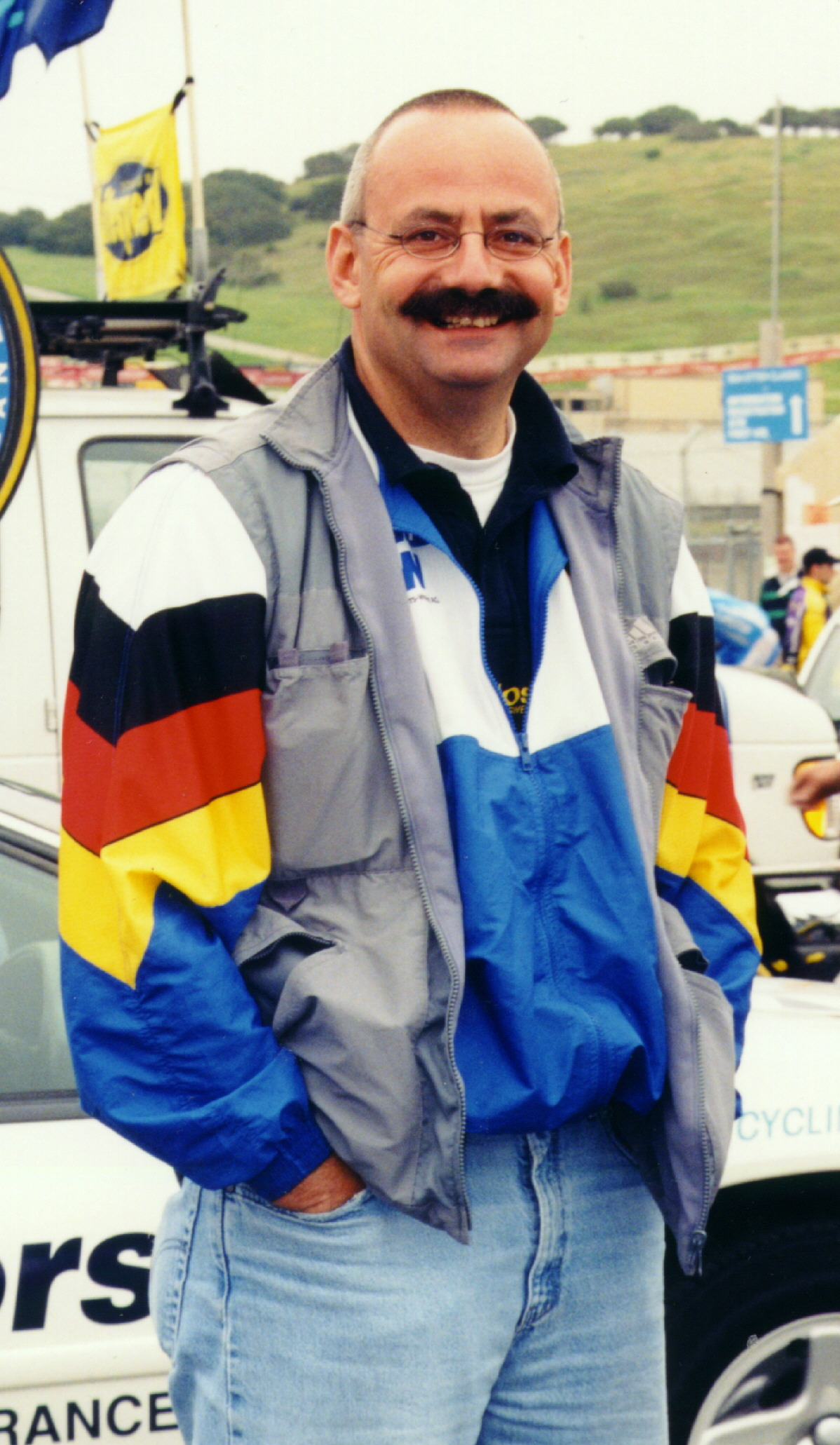 Jochen Dornbusch, German National Women's Cycling Team coach, pictured at the 2001 Sea Otter Classic.